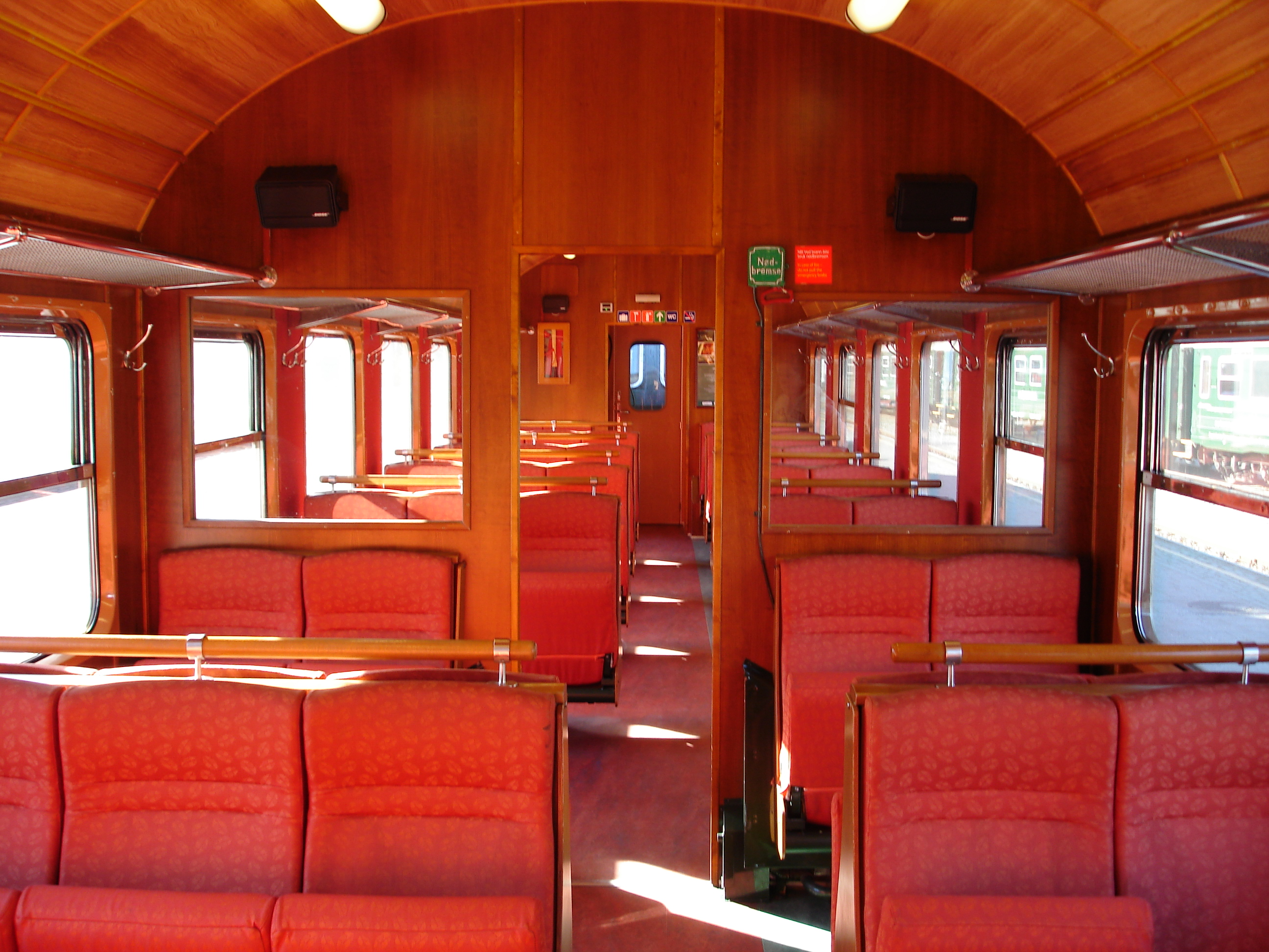 Interior of a Norwegian State Railways B3 coach.